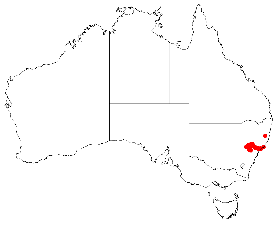 Macrozamia reducta occurrence data downloaded from Australasian Virtual Herbarium using